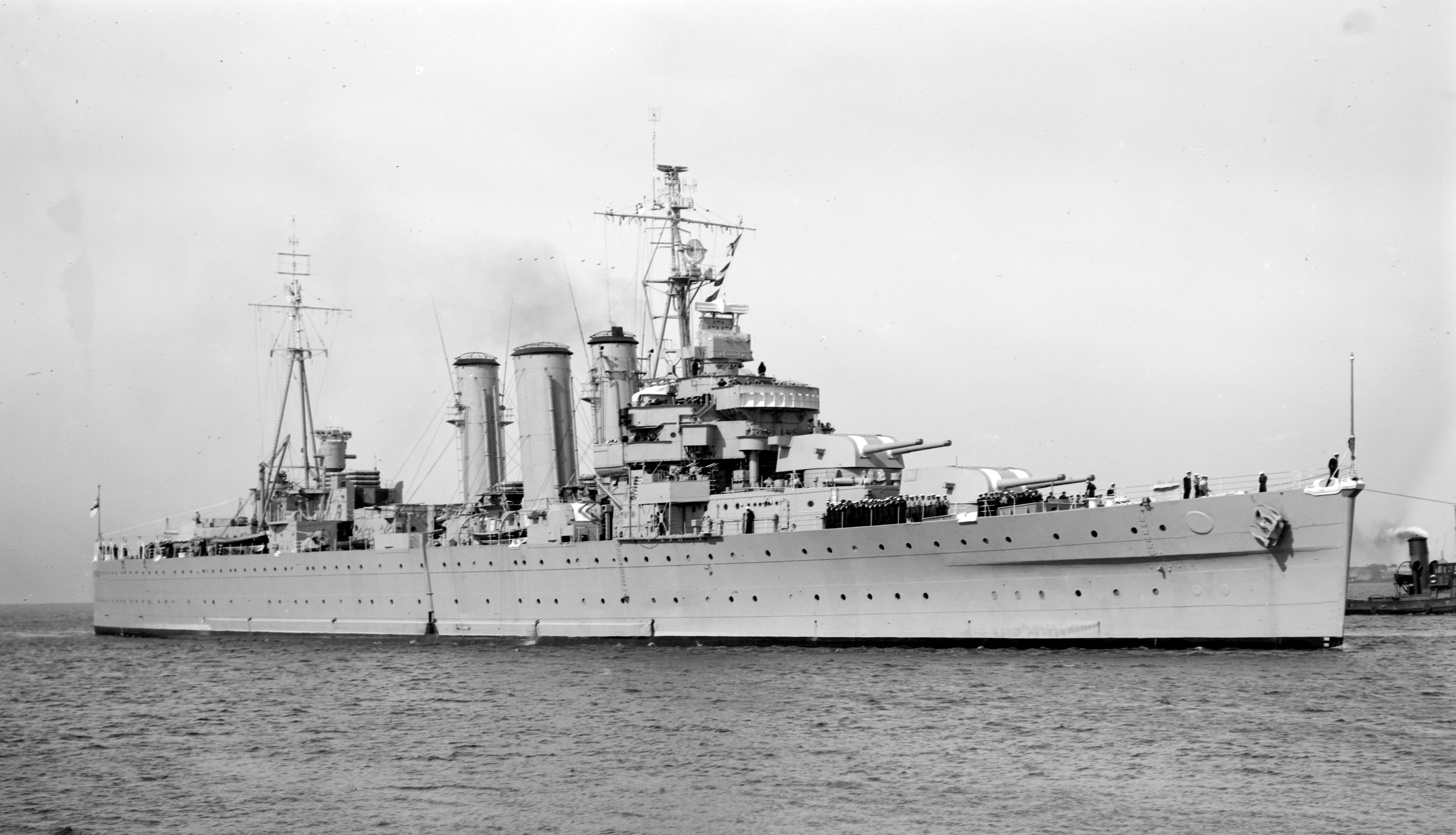 HMAS Australia